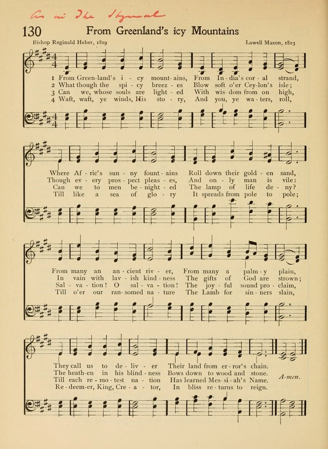 Music for the hymn "From Greenland's Icy Mountains", by Reginald Heber (1783-1826) to the tune "Missionary Hymn" (1823) by Lowell Mason